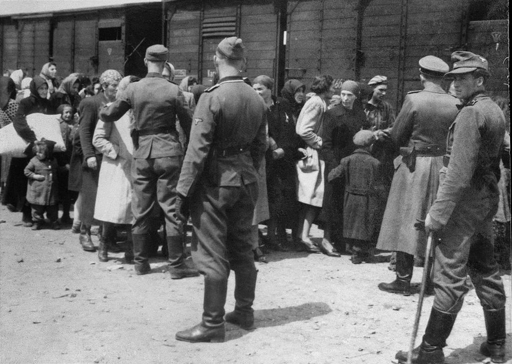 Stefan Baretzki is the SS guard carrying a stick. He often used it to beat prisoners.